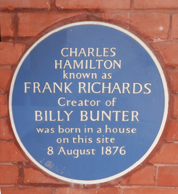 Blue plaque (erected by local group) to Charles Harold St. John Hamilton. Born 1876-08-08 died 1961-12-24. Author: wrote under the nom de plume of Frank Richards and Martin Clifford. Born: 15 Oak Street, Ealing W5 London UK. Grounds of house and surrounding streets are now the site of a shopping mall. Creator of Billy Bunter.